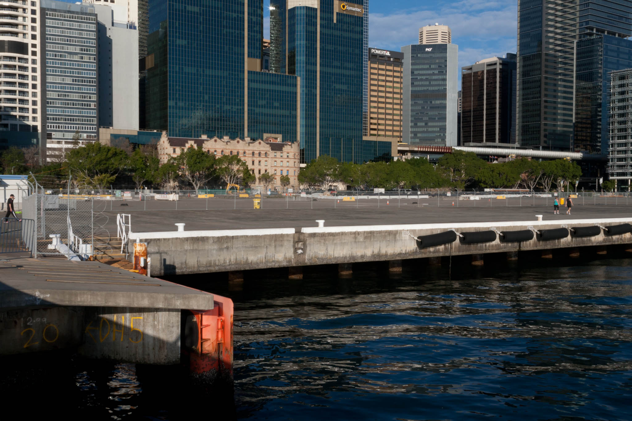 International Towers site in 2011